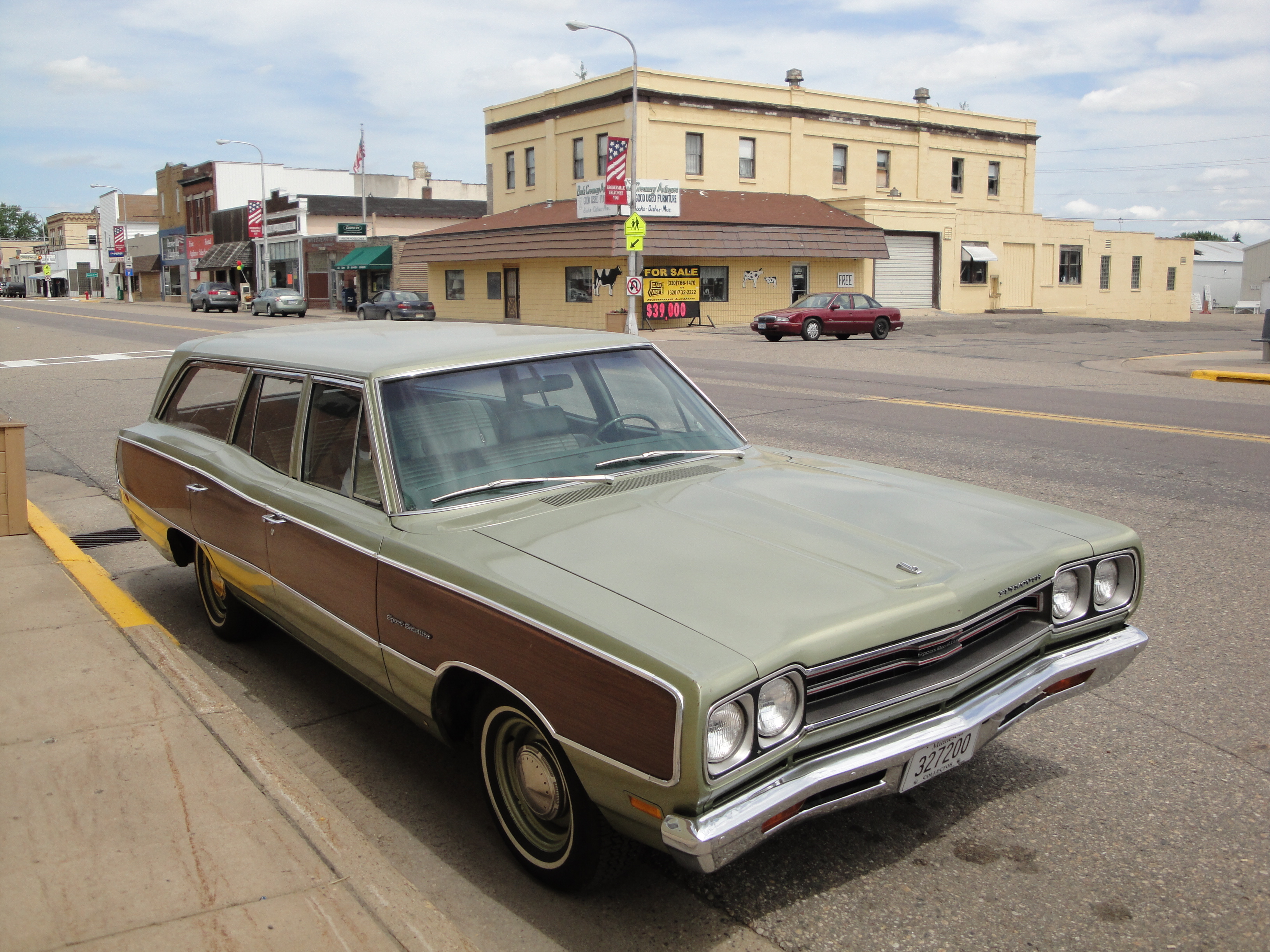 I travelled Up North to my family's cabin to meet a friend that was visiting from California. I spotted some cars along the way and took some shots.